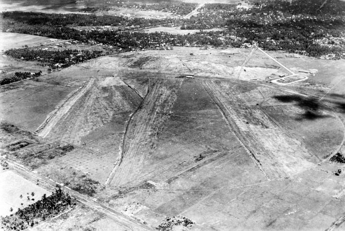 The construction of Kemayoran airport in Batavia, JavaBahasa Indonesia: Pembangunan bandar udara Kemayoran di Batavia, Jawa